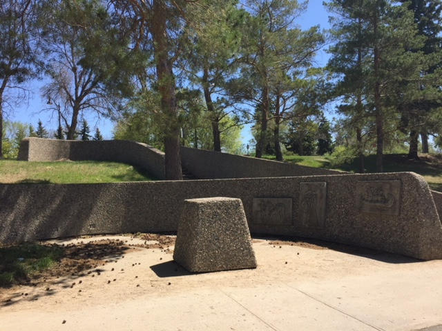 Surveyors Monuments, Regina, Saskatchewan